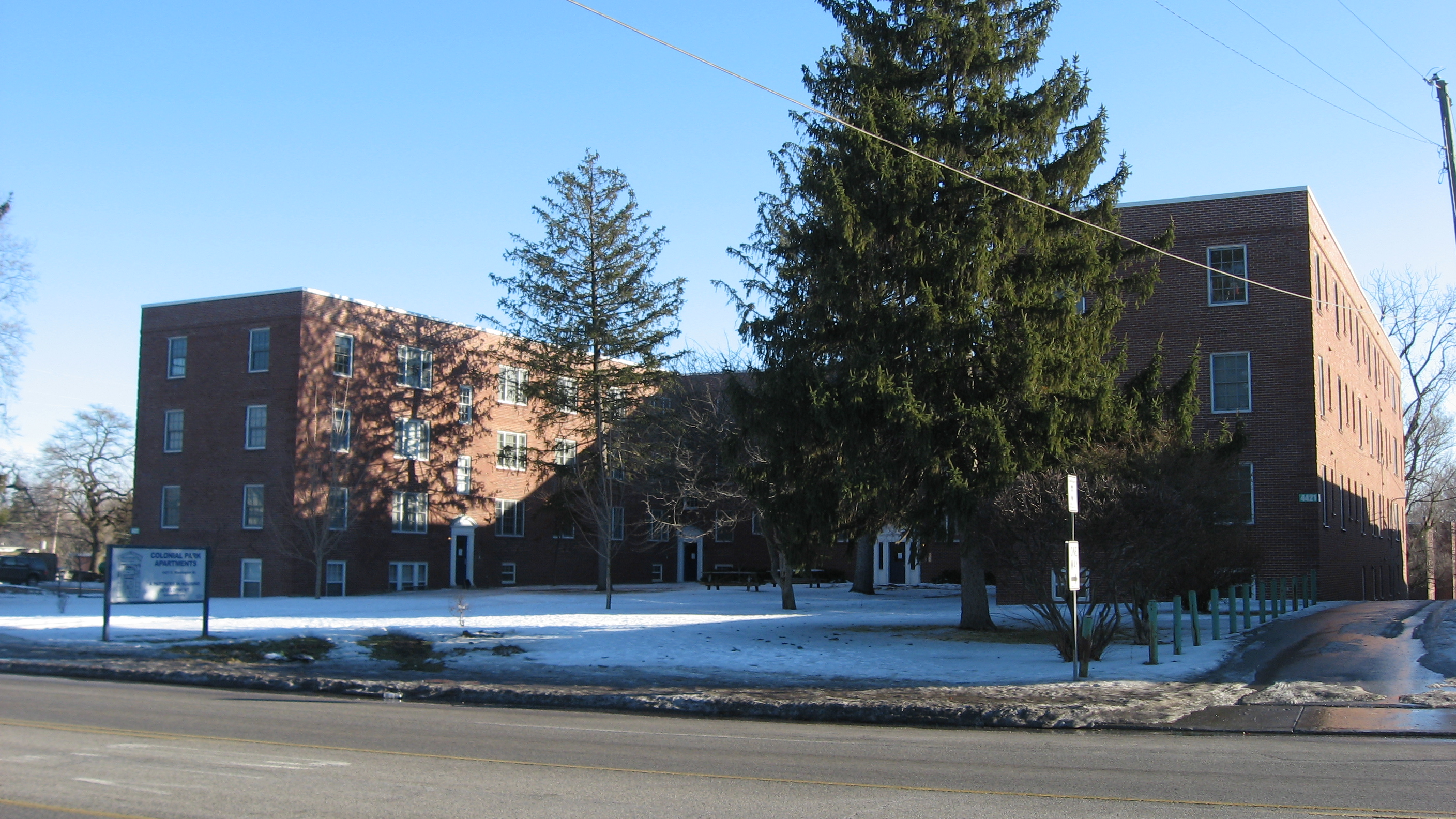 Front of the Linwood Colonial Apartments, located at 4421 E. Washington Street and 55 and 56 S. Linwood Avenue in Indianapolis, Indiana, United States. Built in 1938, it is listed on the National Register of Historic Places.